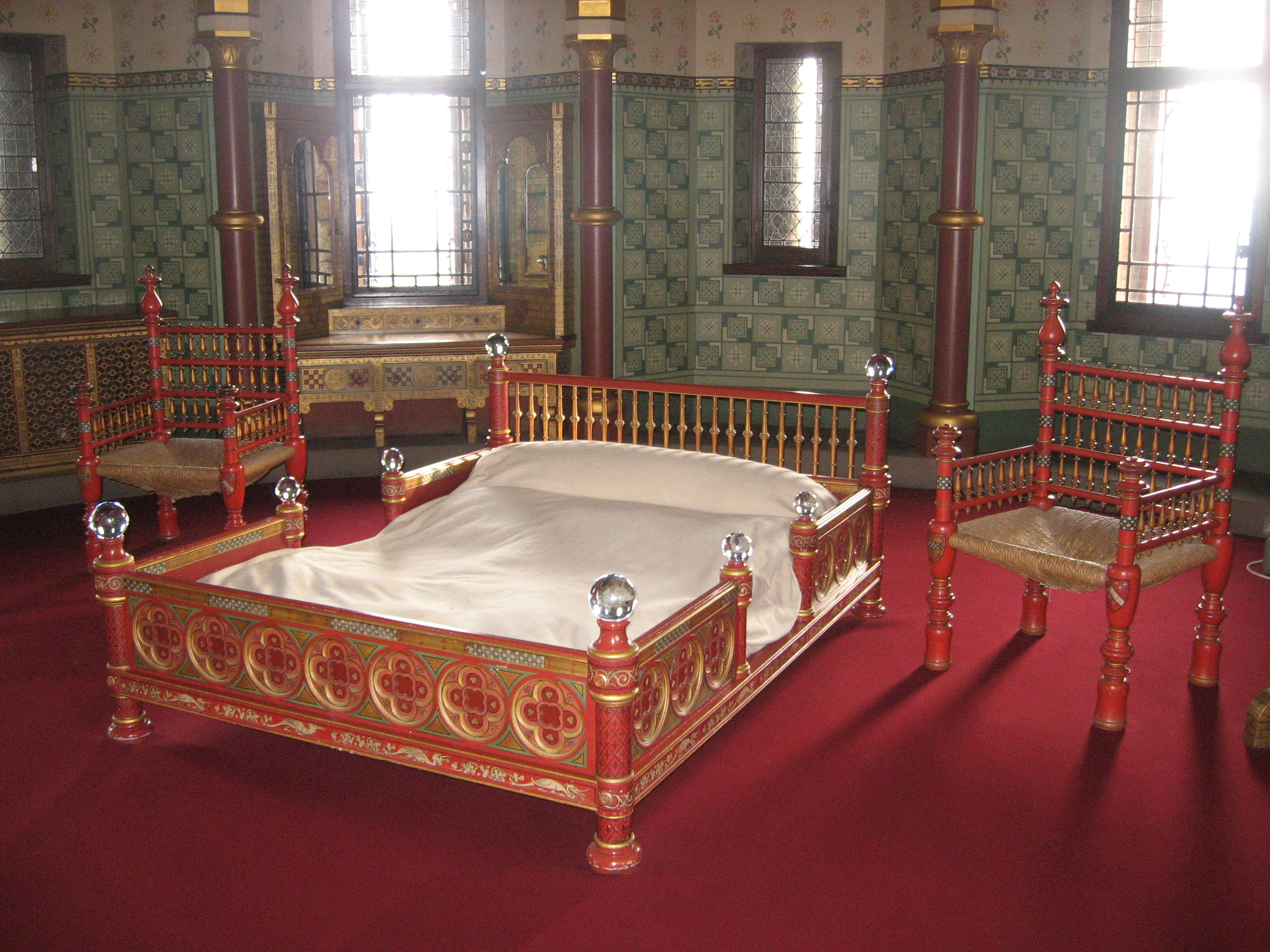 Castell Coch - Lady Bute's bedroom